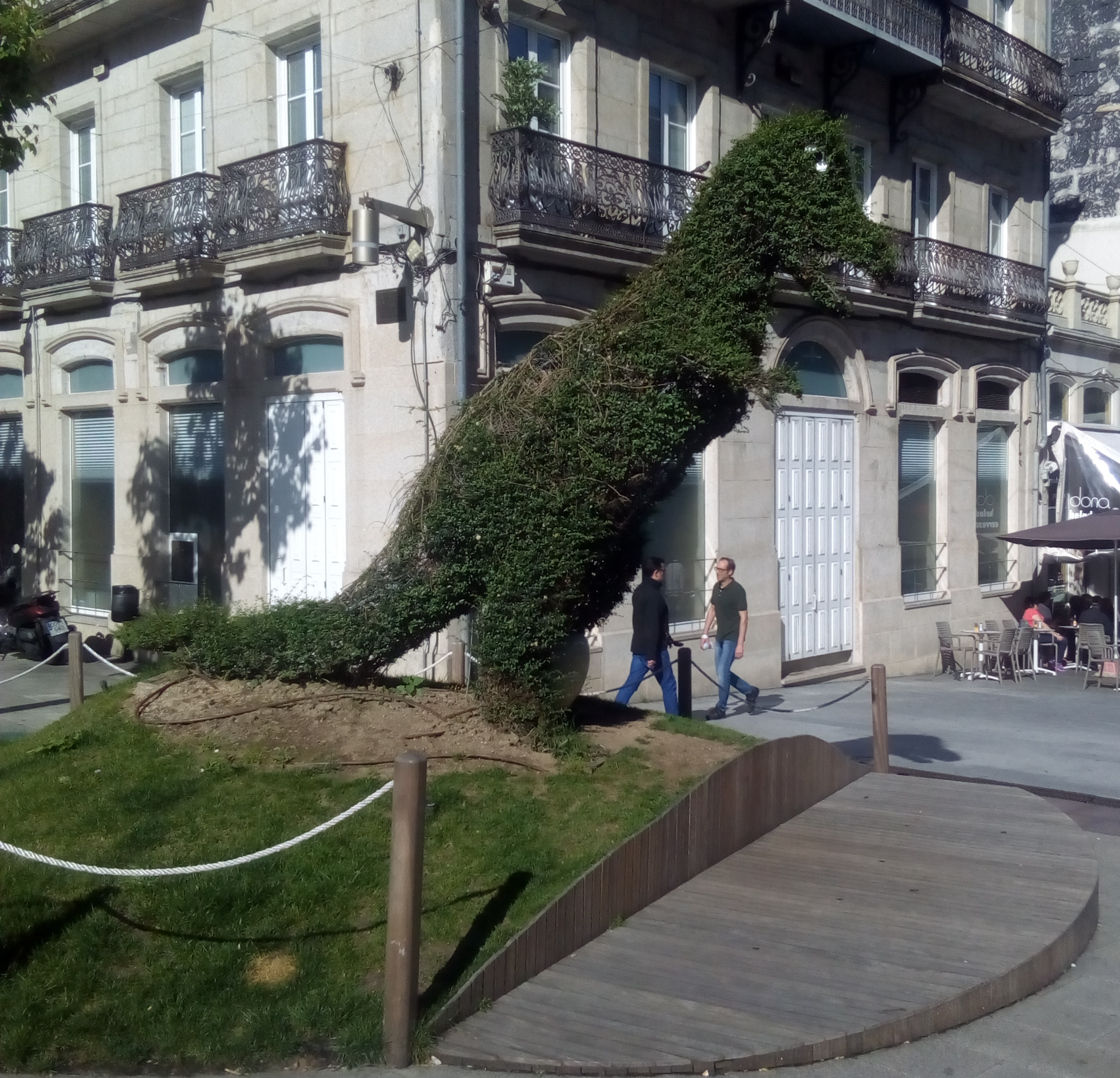 el dinoseto